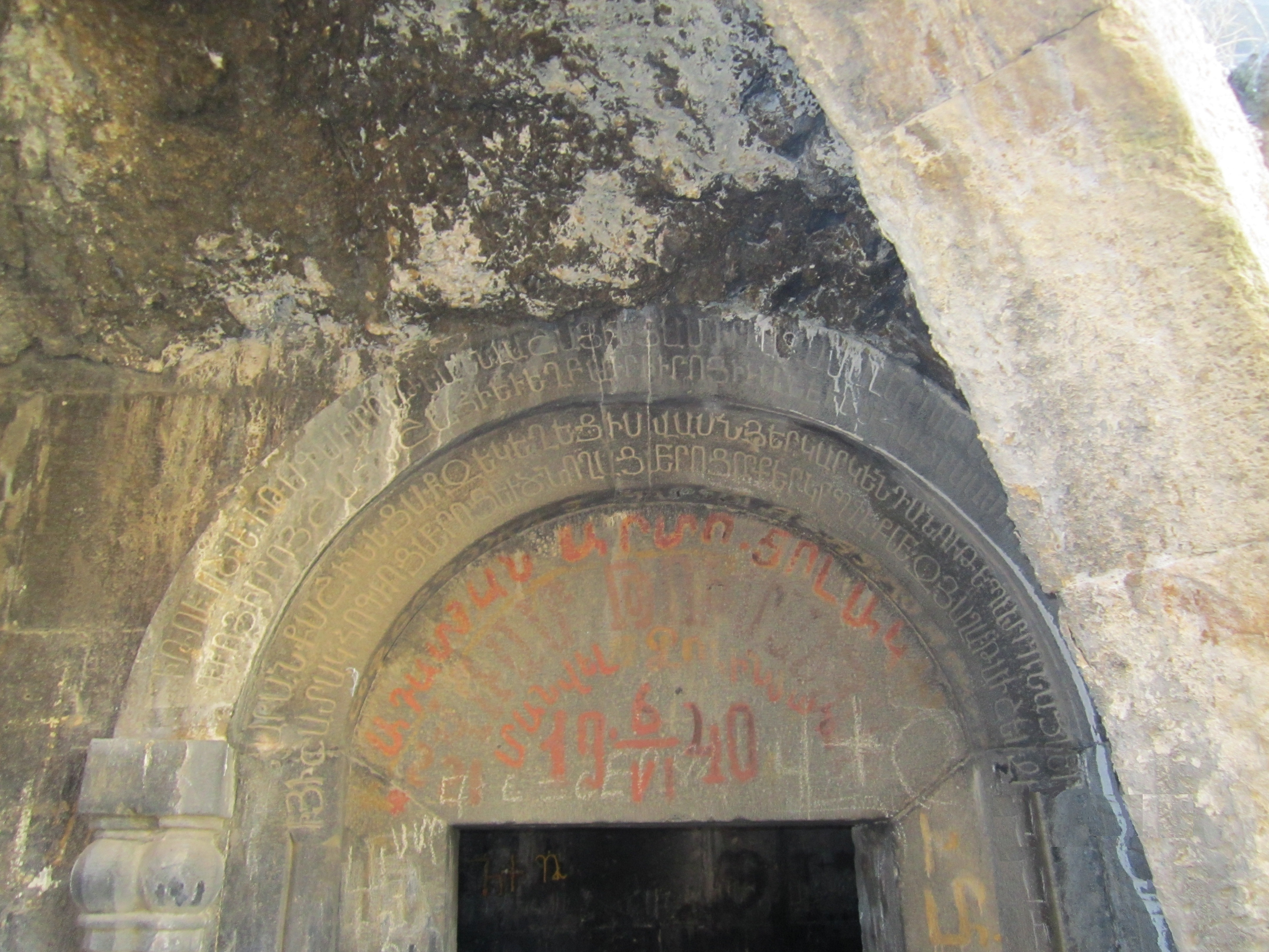 Photo by Arthur Papoyan 112/11